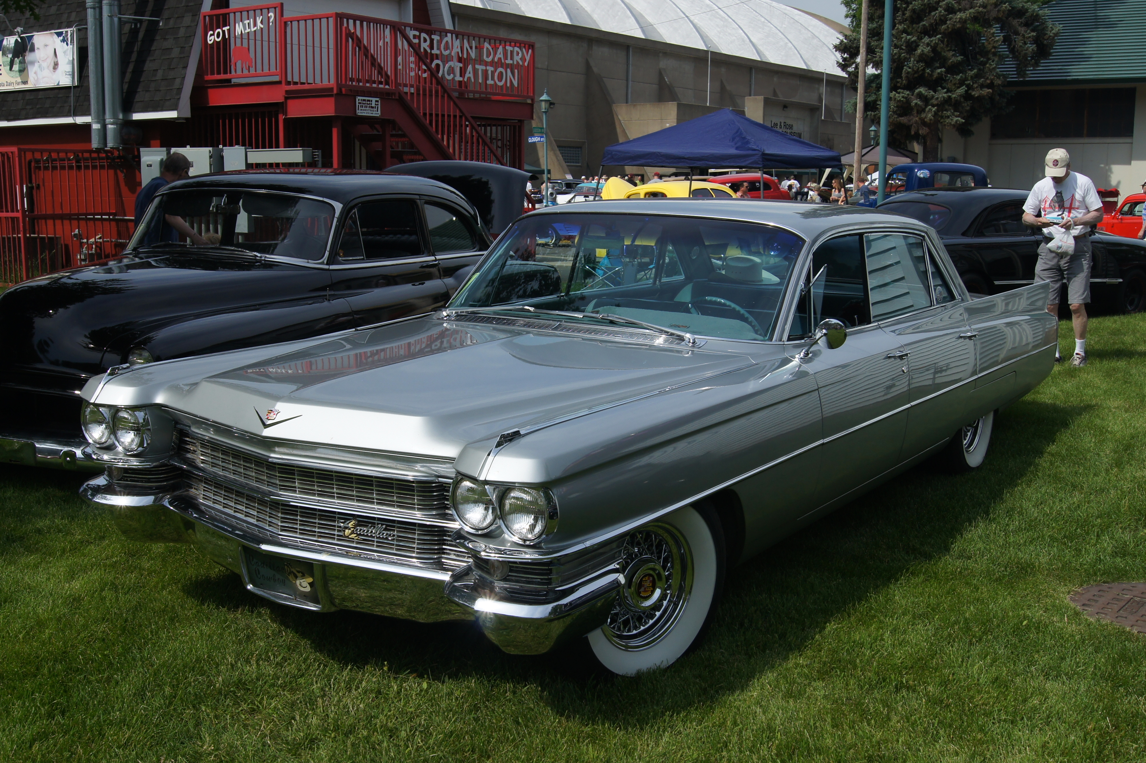 MSRA “BACK TO THE 50′s” 42nd Annual June 19-21, 2015 State Fairgrounds St. Paul Minnesota Click here for more car pictures at my Flickr site.